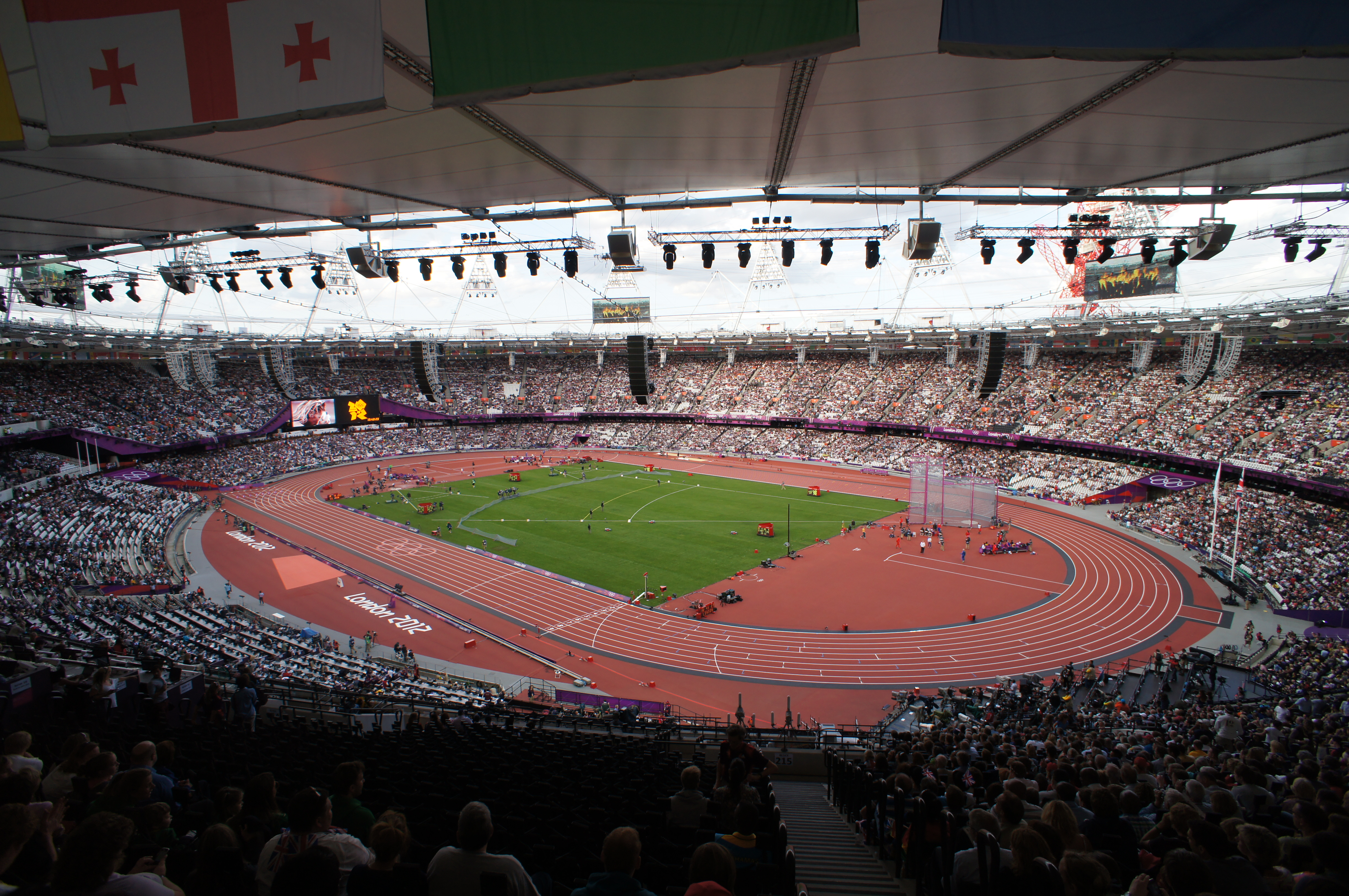 London 2012 Olympics Athletics